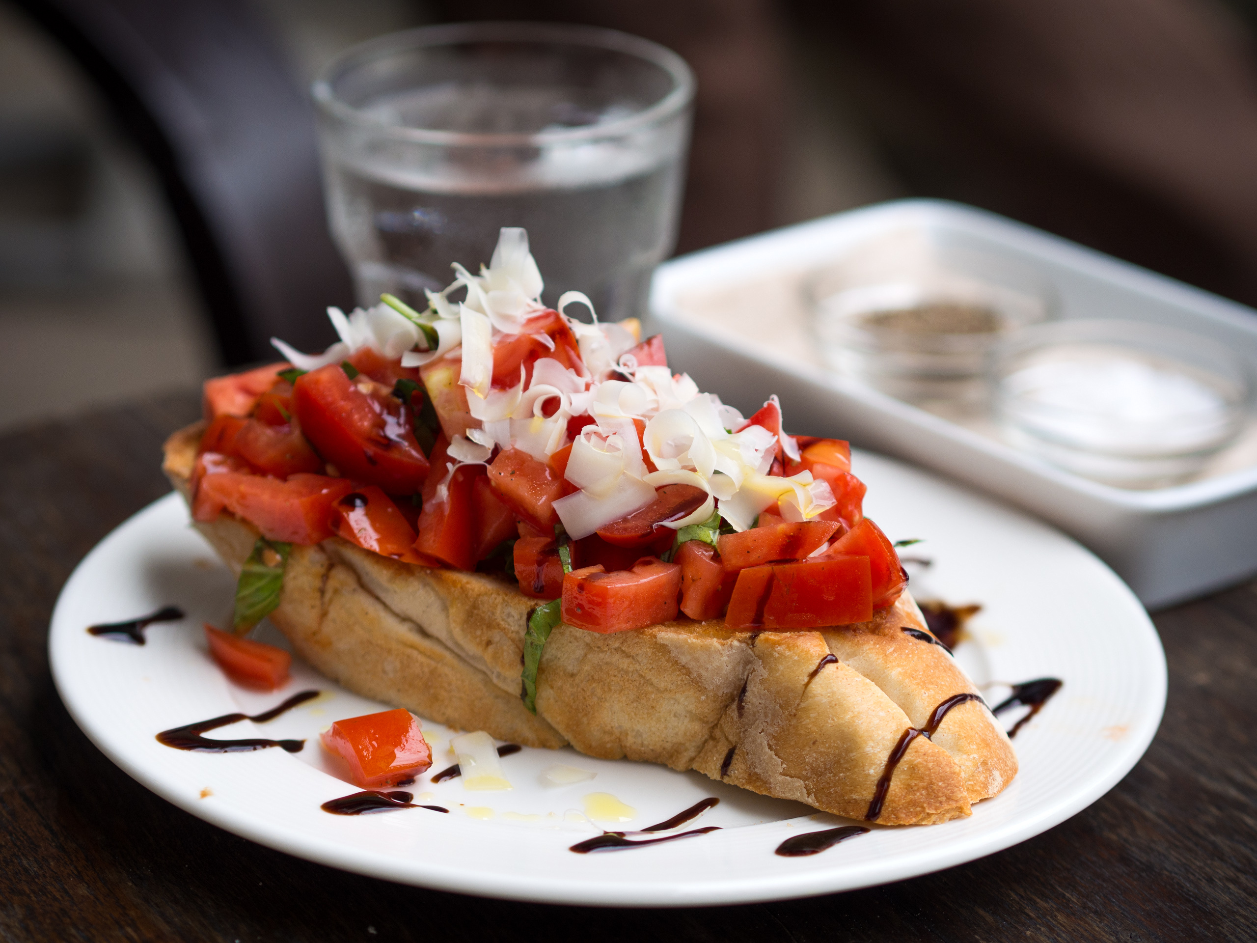 A bruschetta with tomatoes, Grana Padano cheese, basil, and caramelized balsamic dressing.